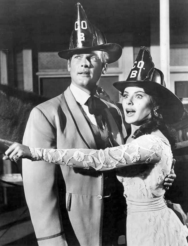 Photo of Roger Moore as Beau Maverick and Kathleen Crowley from the television program Maverick.